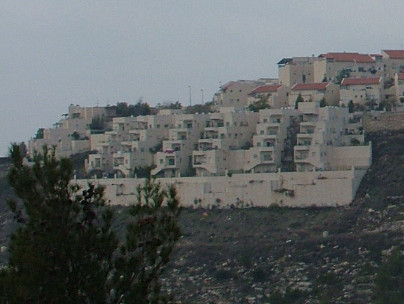 A (what type of house?) in Givat Masoa, Jerusalem